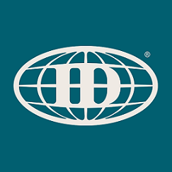 El logo oficial de la Iglesia de Dios (7° día) A.R. en México.